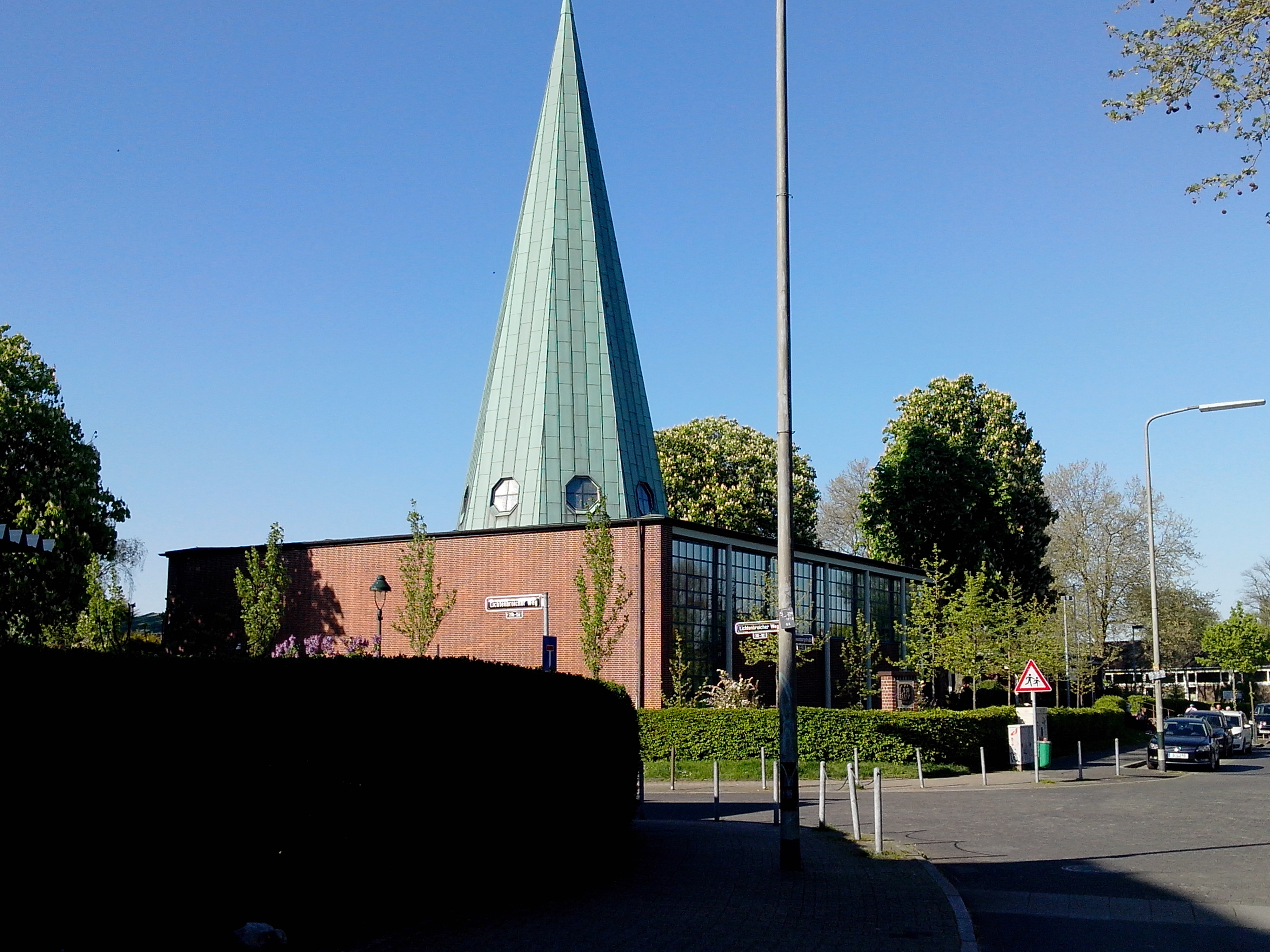 Church of St. Maria Königin (Düsseldorf)